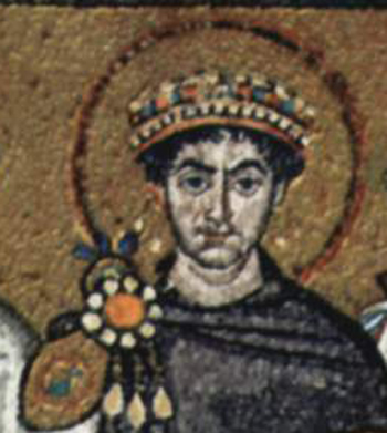 Justinian 1 - imperator